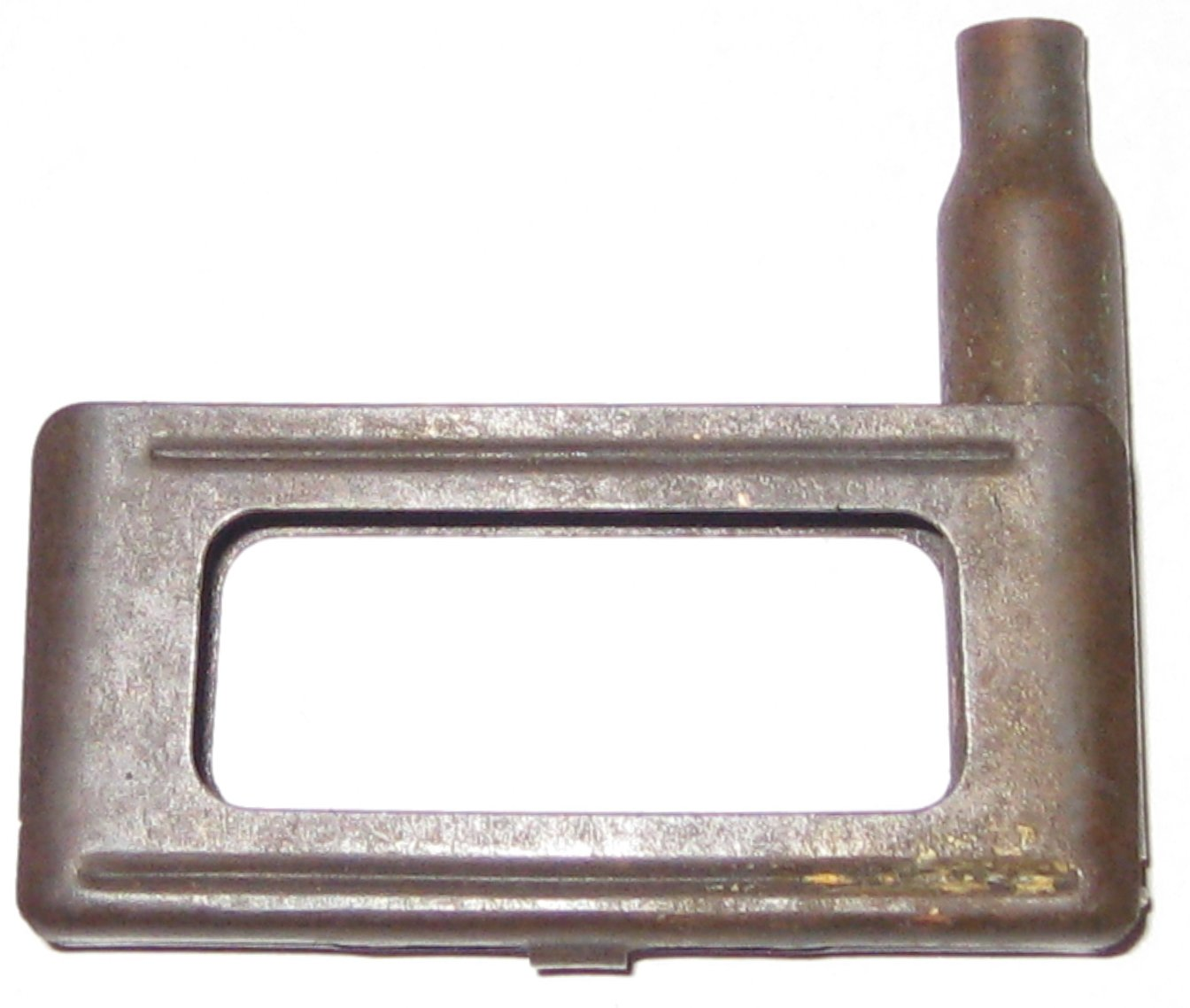 Carcano stripper clip from World War One (found at the Adamello glacier)